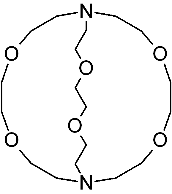 2.2.2-Cryptand[2.2.2]Cryptand